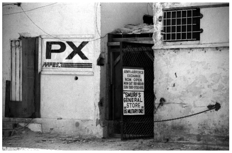 Post Exchange (now closed) located at the old international airport in Mogadishu, Somalia (January 1994). Photo by Peter Rimar.